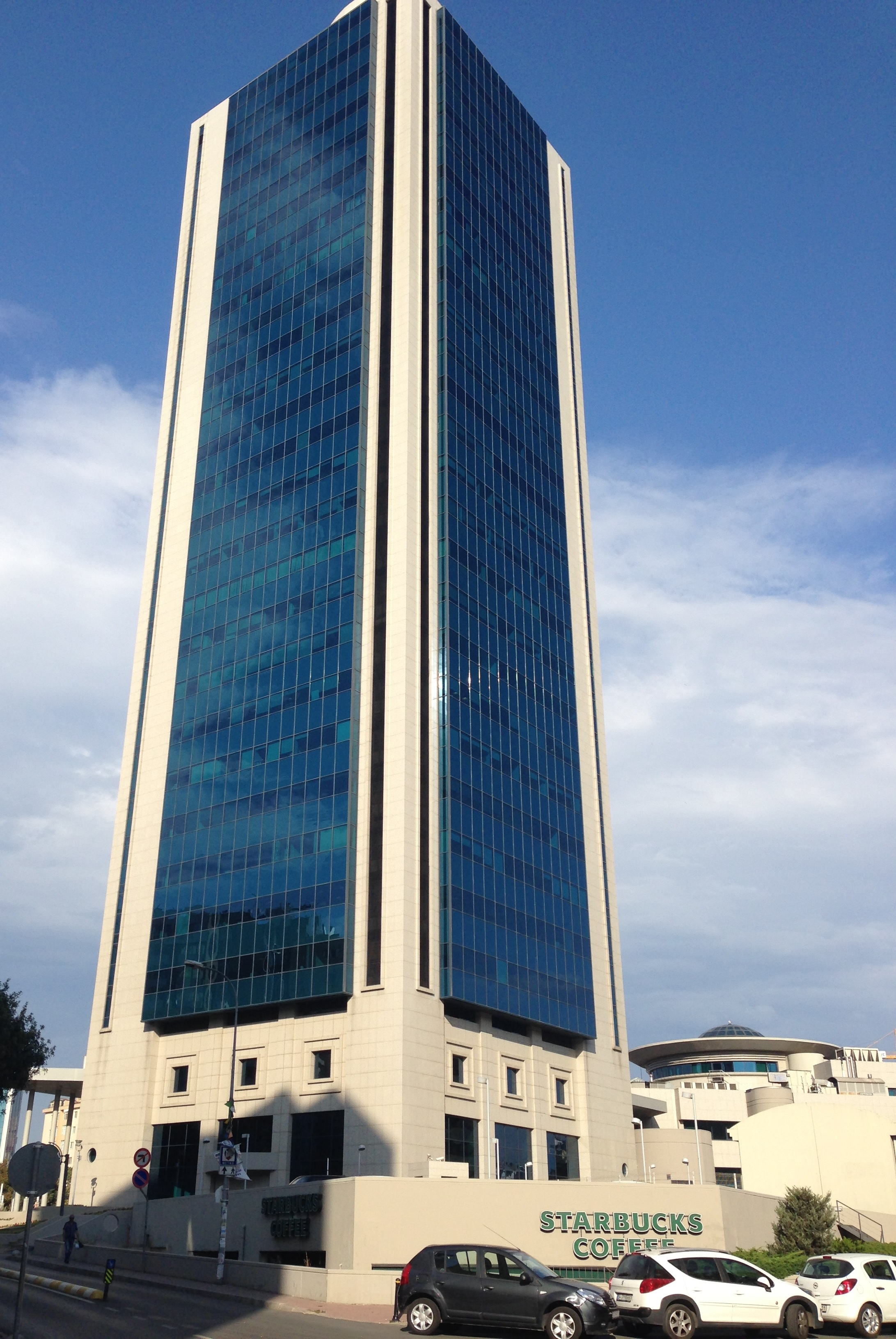 One of the highest buildings in Istanbul.